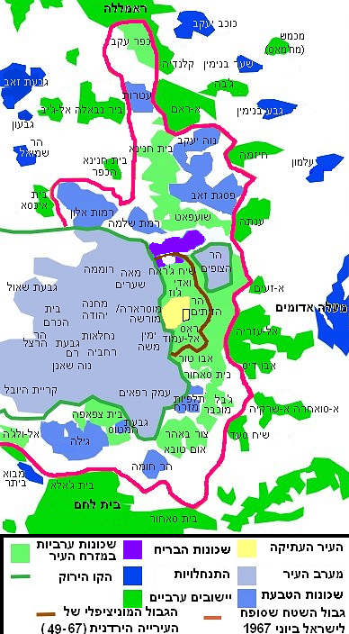 Map of East Jerusalem